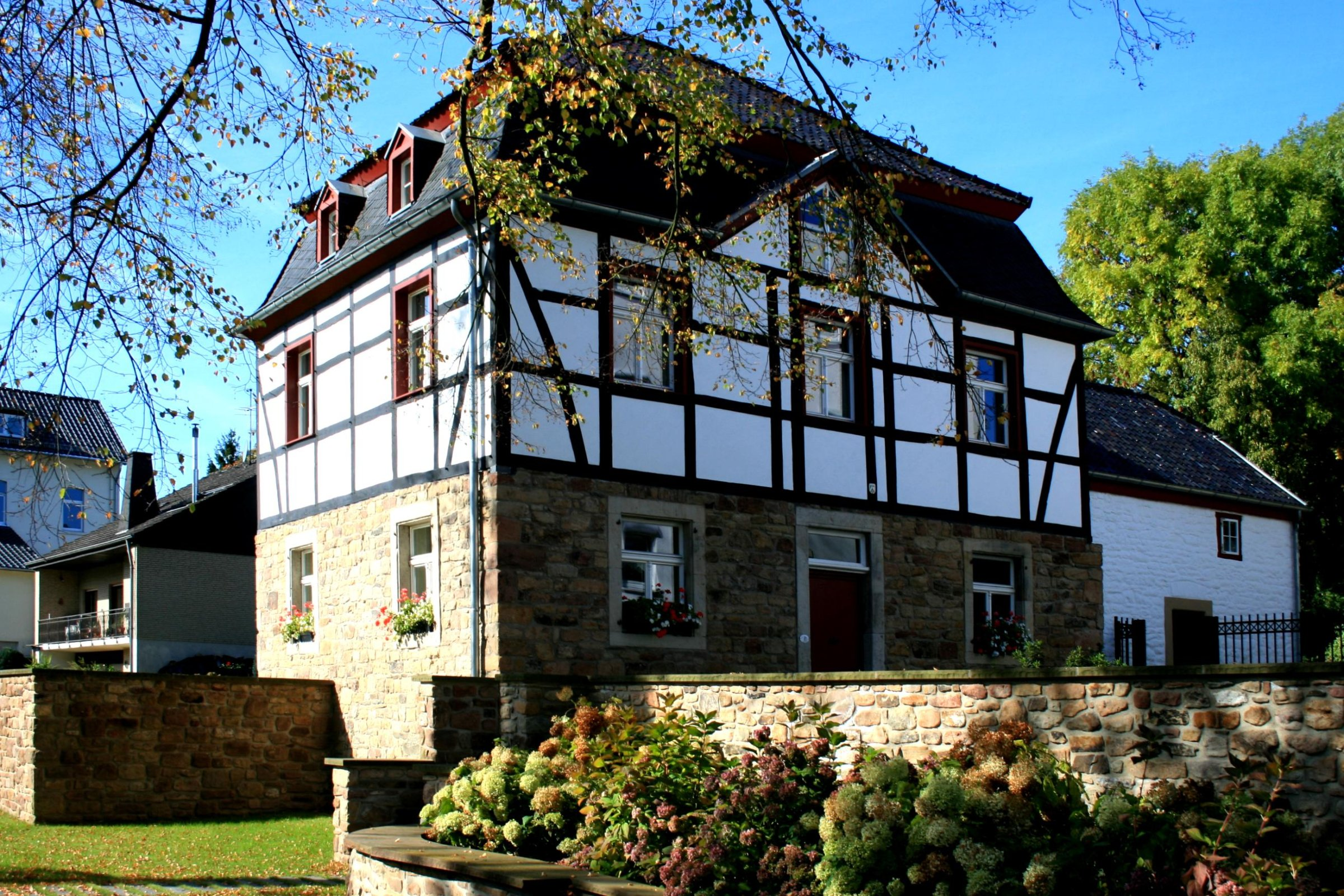 Cultural heritage monument No. 99 in Kreuzau